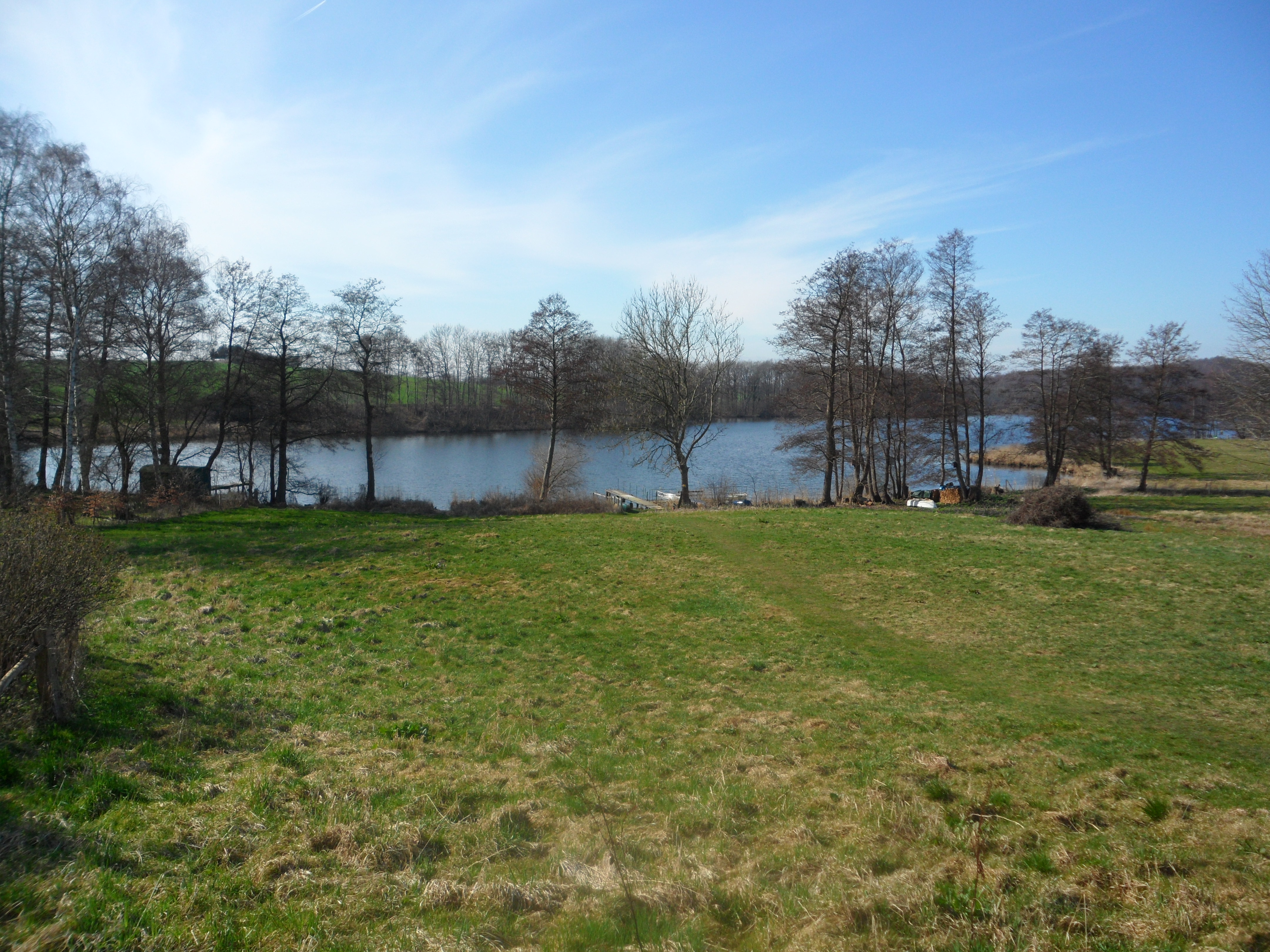 Wielener See from the village Wielen